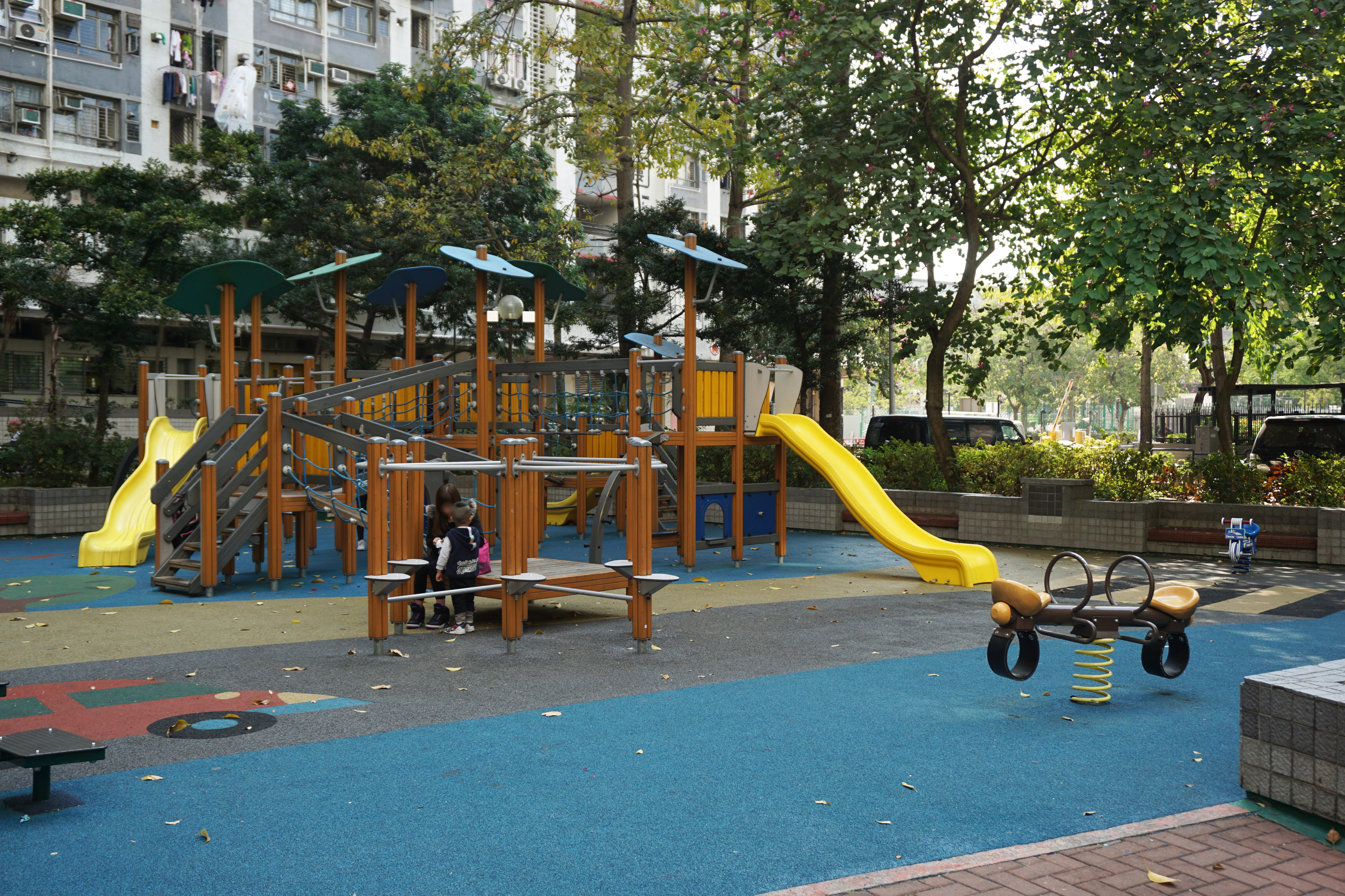 Long Ping Estate in Yuen Long, Hong Kong.